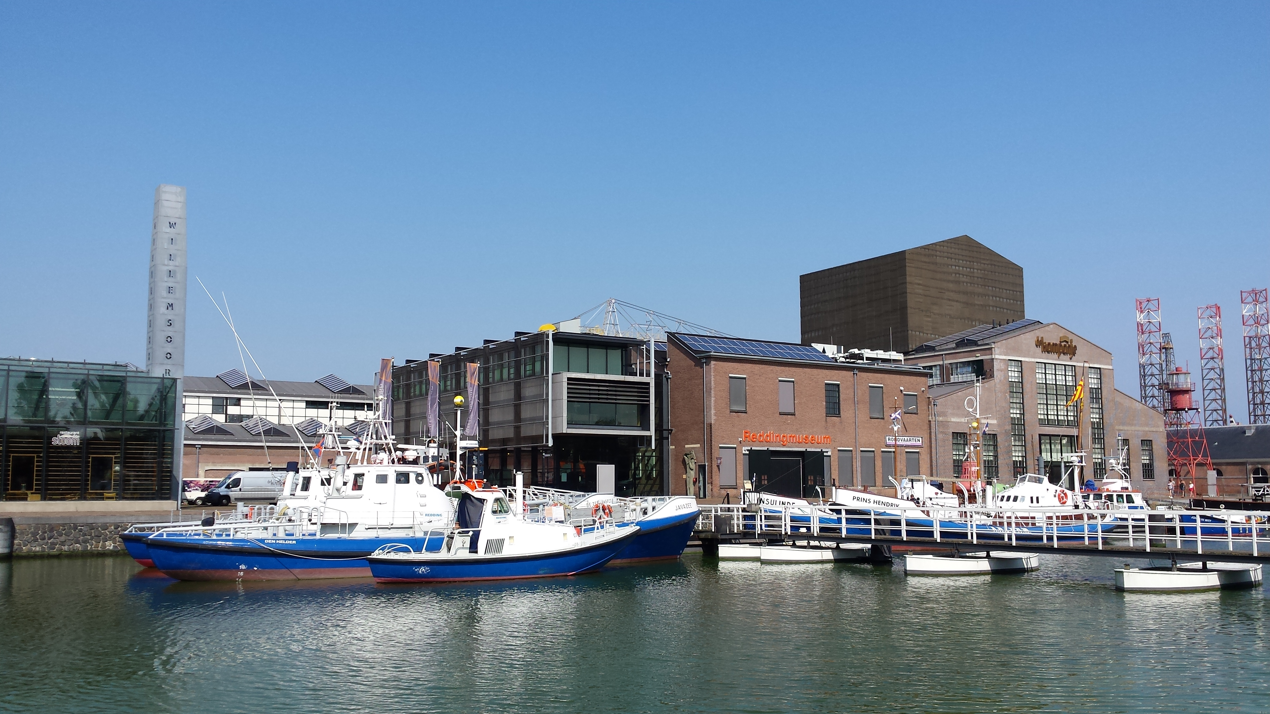 Den Helder - Former navy shipyard with Reddingmuseum and theater